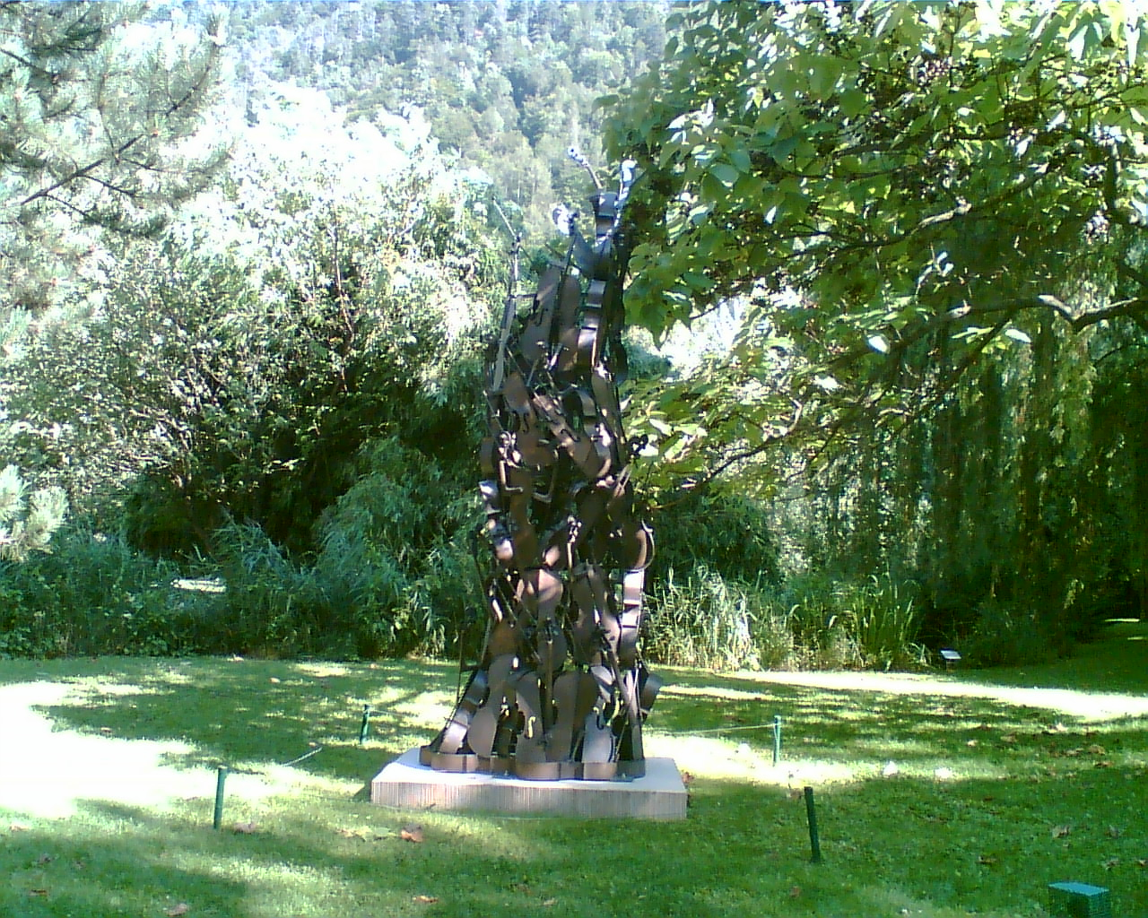 At the Sculpture's Park - Arman- Contrepoint Violoncelles